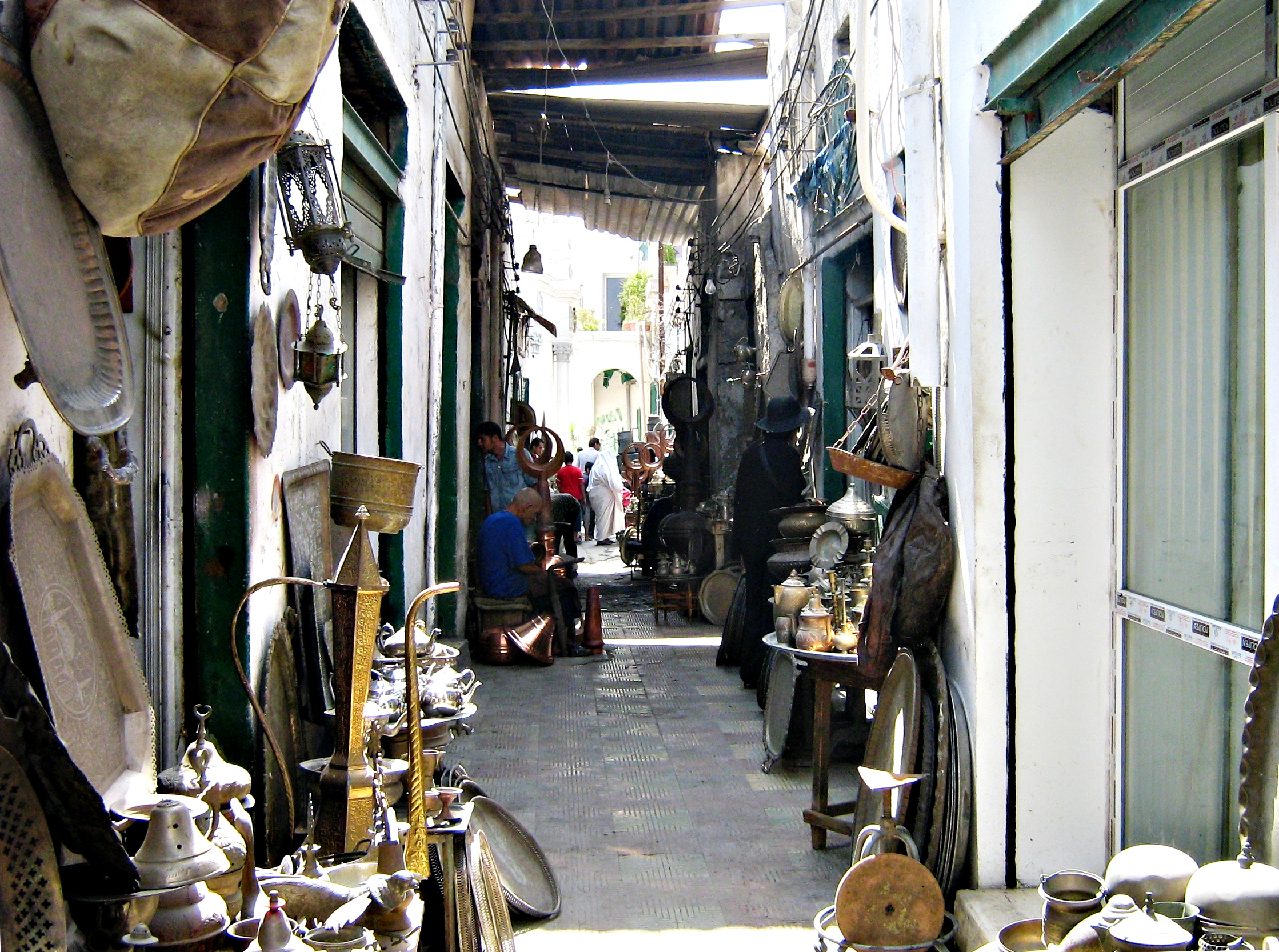 Medina._Tripoli._Libya.